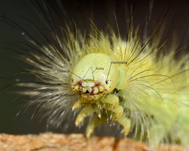 Caterpillar head morphology. Shown here is Calliteara pudibunda.